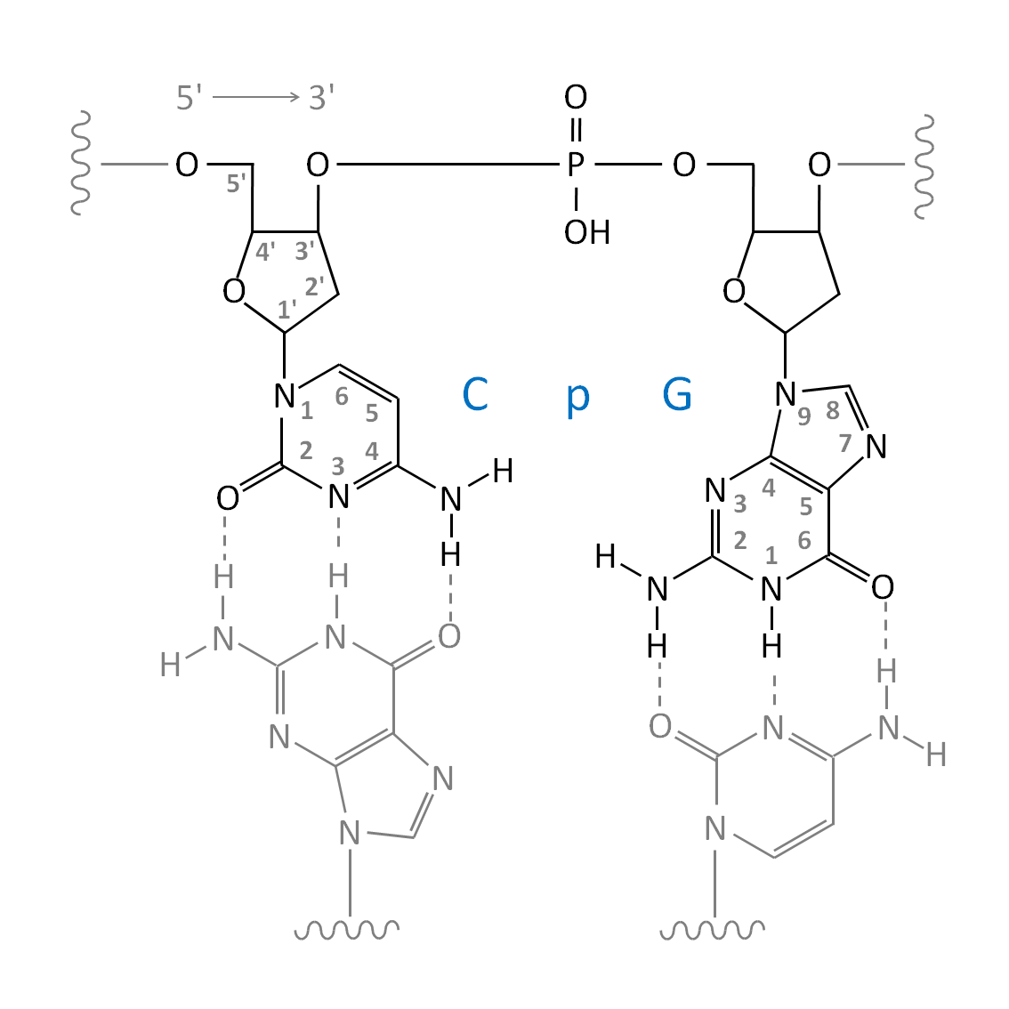 Schematic representation of a CpG dinucleotide as a section of a double-stranded DNA molecule (dsDNA). The actual CpG dinucleotide (5'-deoxycytidine-phosphate-deoxyguanosine-3') on the indicated strand ("Watson") is shown in black. The base pairing to the complementary strand ("Crick") is shown in gray. The orientation (5'-3'), numberings, and transitions to unillustrated parts (wave lines) of the dsDNA molecule are also shown in gray. The blue labeling of eponymeous parts (cytosine-phosphate-guanine) results in the lettering "CpG".